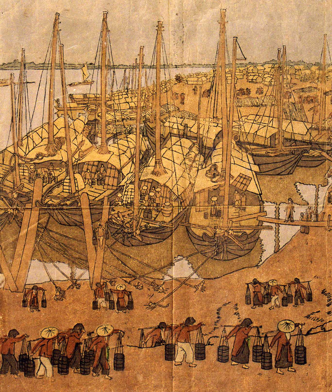 Boats on the Red River Wharf by painter Đỗ-đức-Thuận in 1930. This is the first woodcut in the history of Vietnam's academic painting that has a strange appeal. The artist seemed to confide to the native land his unrelenting melancholy about the pompous and peaceful capital city of ancient times.